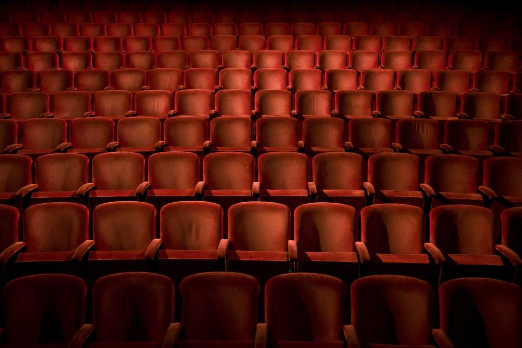 Seats of Alvear Theater.